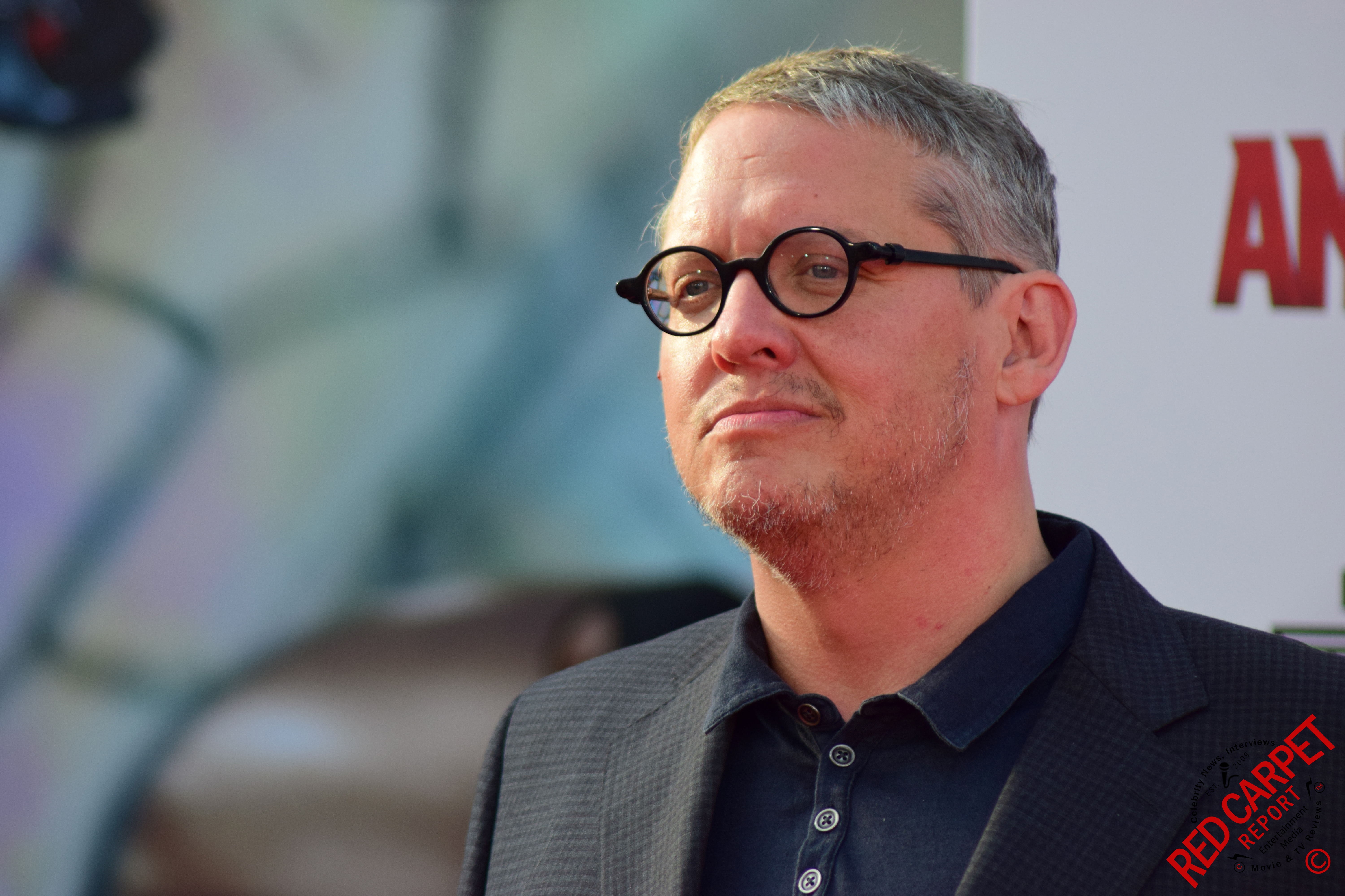 Mingle Media TV and our Red Carpet Report team were on hand for Marvel’s "Ant-Man” World Premiere at the Dolby Theatre in Hollywood. Get the Story from the Red Carpet Report Team, follow us on Twitter and Facebook at: About Ant-Man The next evolution of the Marvel Cinematic Universe brings a founding member of The Avengers to the big screen for the first time with Marvel Studios’ “Ant-Man.” Armed with the astonishing ability to shrink in scale but increase in strength, master thief Scott Lang must embrace his inner-hero and help his mentor, Dr. Hank Pym, protect the secret behind his spectacular Ant-Man suit from a new generation of towering threats. Against seemingly insurmountable obstacles, Pym and Lang must plan and pull off a heist that will save the world. Marvel’s “Ant-Man” stars Paul Rudd as Scott Lang aka Ant-Man, Evangeline Lilly as Hope Van Dyne, Corey Stoll as Darren Cross aka Yellowjacket, Bobby Cannavale as Paxton, Michael Peña as Luis, Judy Greer as Maggie, Tip “Ti” Harris as Dave, David Dastmalchian as Kurt, Wood Harris as Gale, Jordi Mollà as Castillo and Michael Douglas as Hank Pym. Follow Marvel on Twitter: Like Marvel on FaceBook: For even more Marvel Comics news follow at Tumblr: Instagram: Google+: Pintrest: For more of Mingle Media TV’s Red Carpet Report coverage, please visit our website and follow us on Twitter and Facebook here